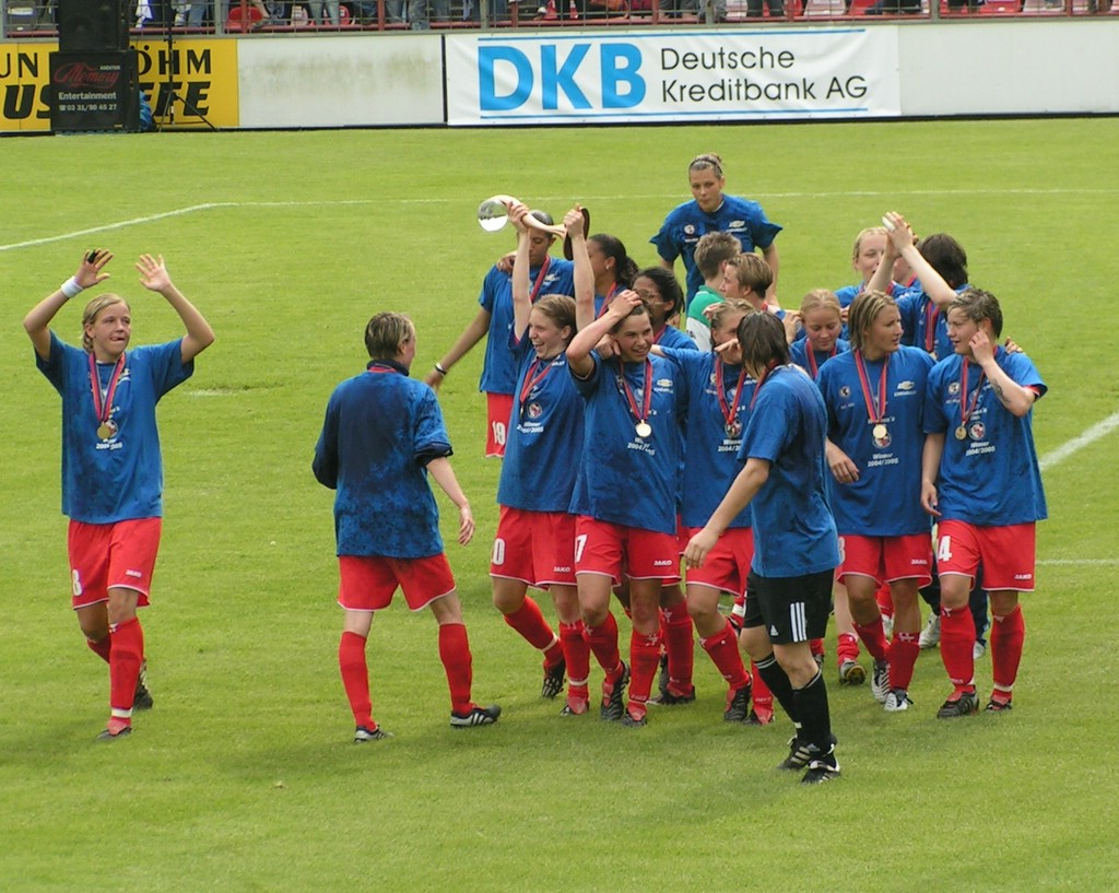 zanetti Potsdam: 1. FFC Turbine Potsdam - Djurgårdens IF / Älvsjö Stockholm - with the cup. Source: taken by David Herrmann, 21. May 2005.